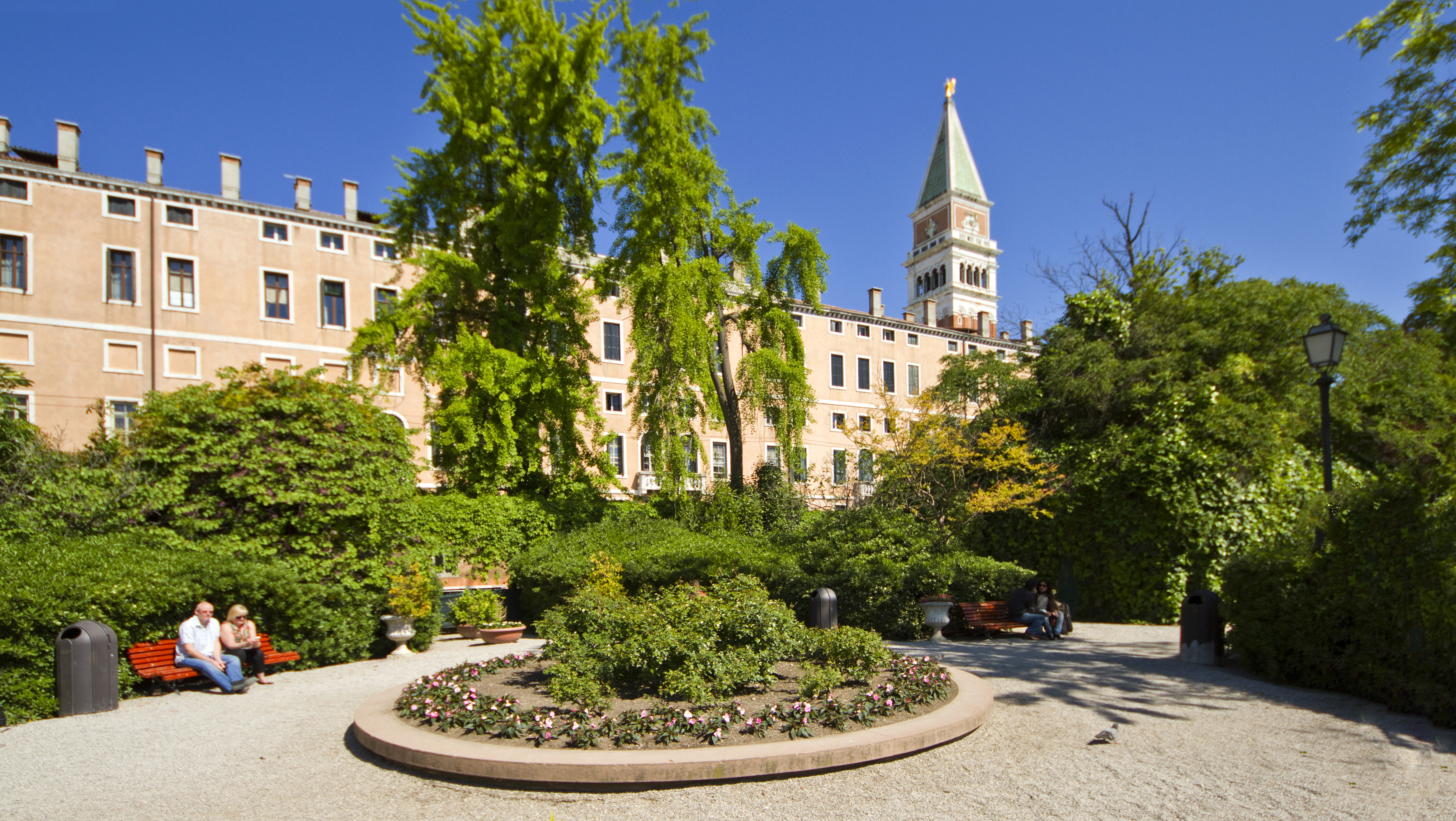 San Marco, 30100 Venice, Italy